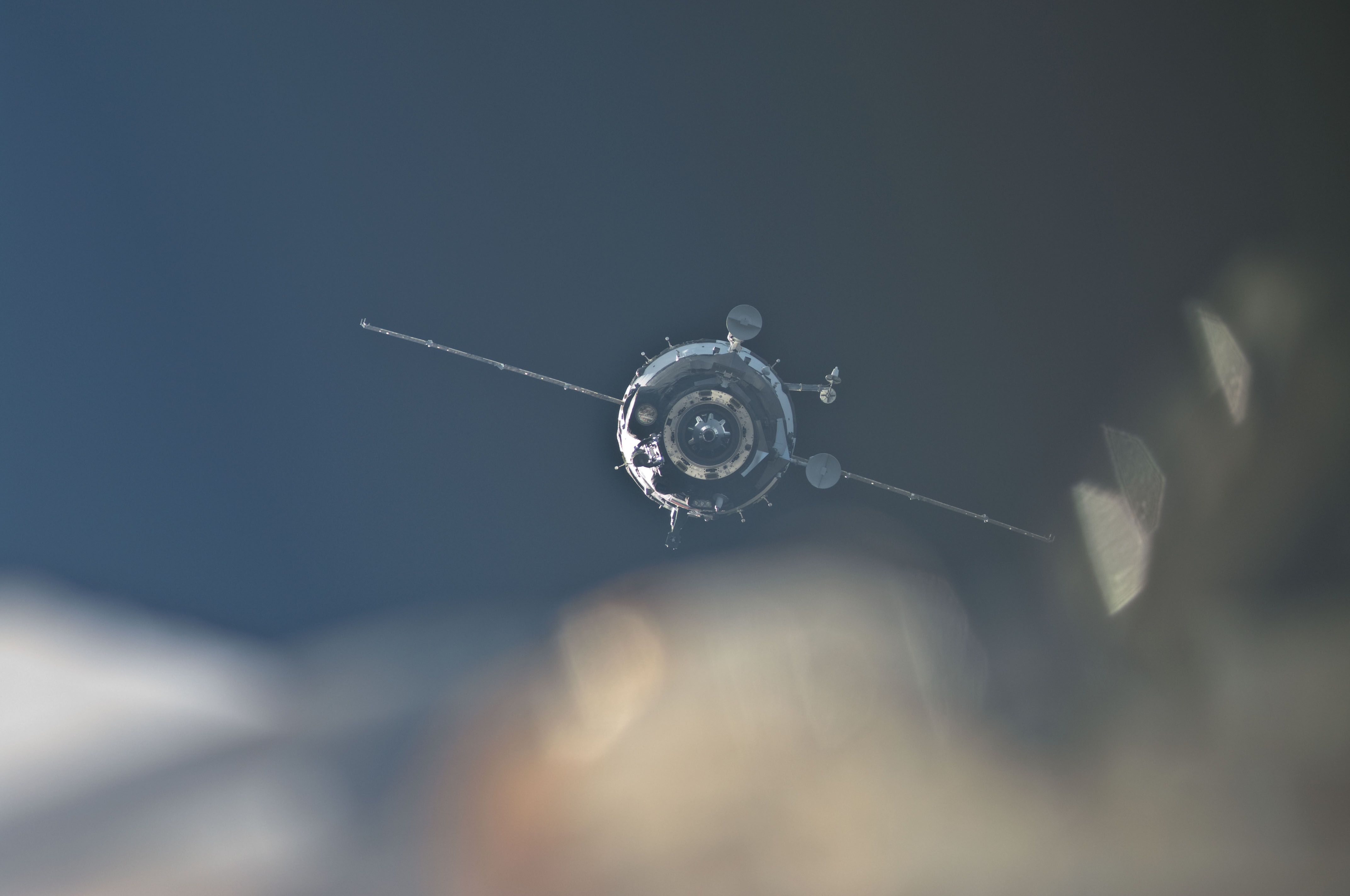 The Soyuz TMA-18 spacecraft approaches the International Space Station, carrying Russian cosmonauts Alexander Skvortsov, Soyuz commander and Expedition 23 flight engineer; and Mikhail Kornienko, flight engineer; along with NASA astronaut Tracy Caldwell Dyson, flight engineer. Docking of the two spacecraft occurred at 1:25 a.m. (EDT) on April 4, 2010, and the hatches were opened at 3:19 a.m.